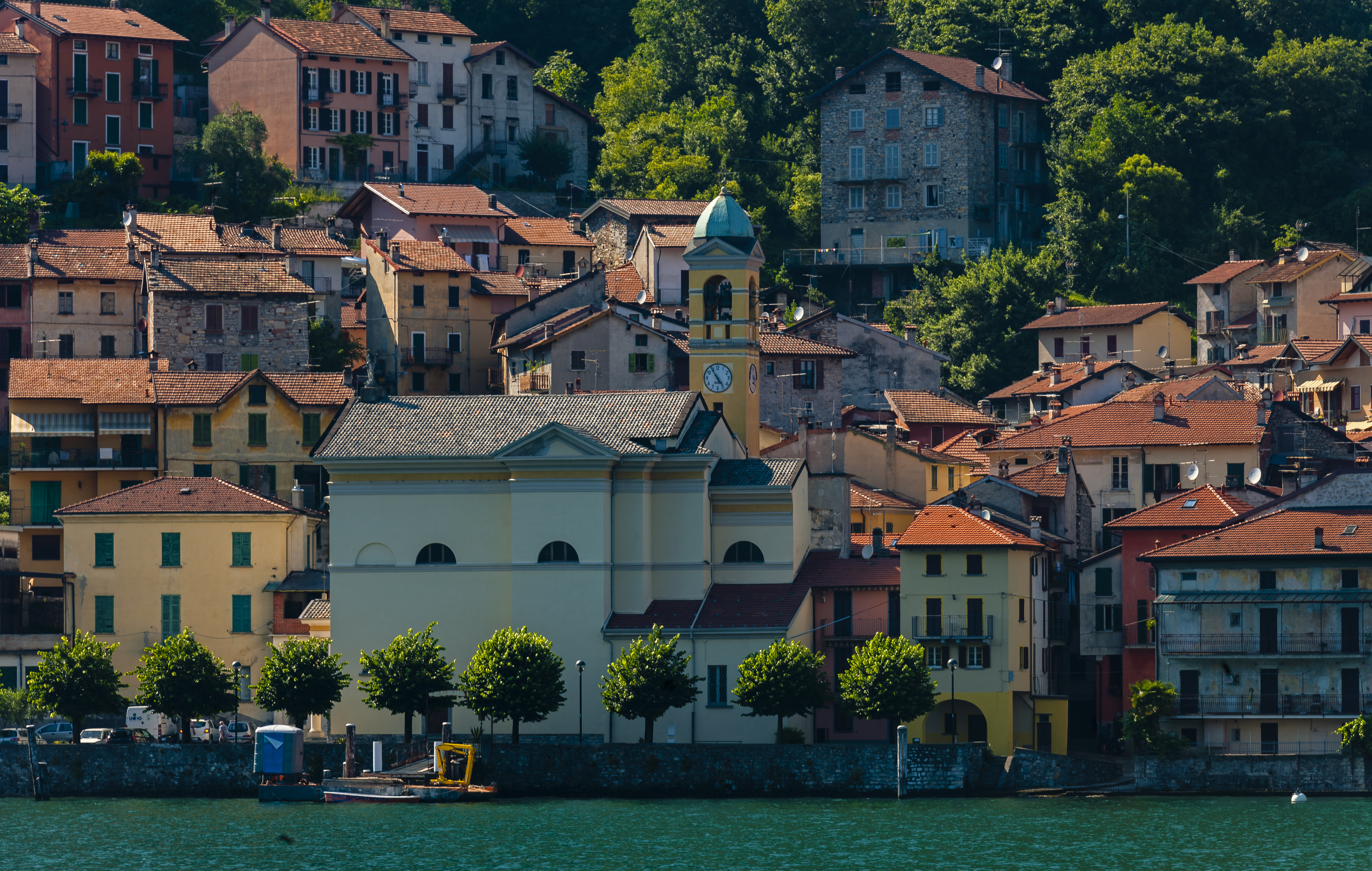 Central Colonno, and its parish church, seen from the ferry up Lake Como